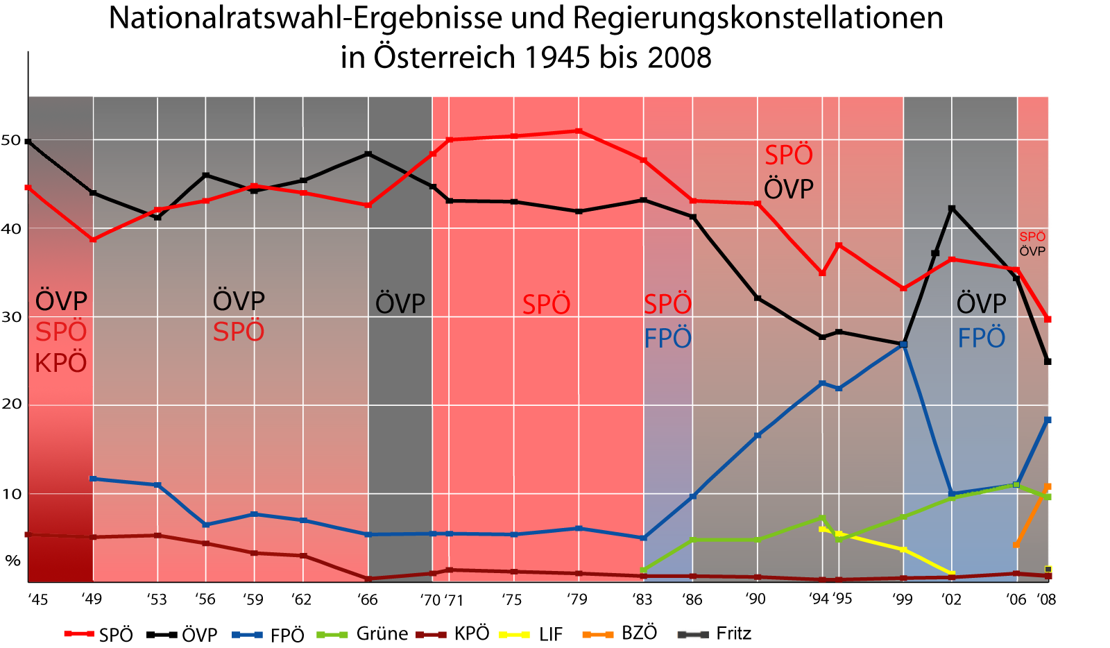 Results of the legislation-elections in Austria 1945 to 2008, color-overlay for the government-constellations.